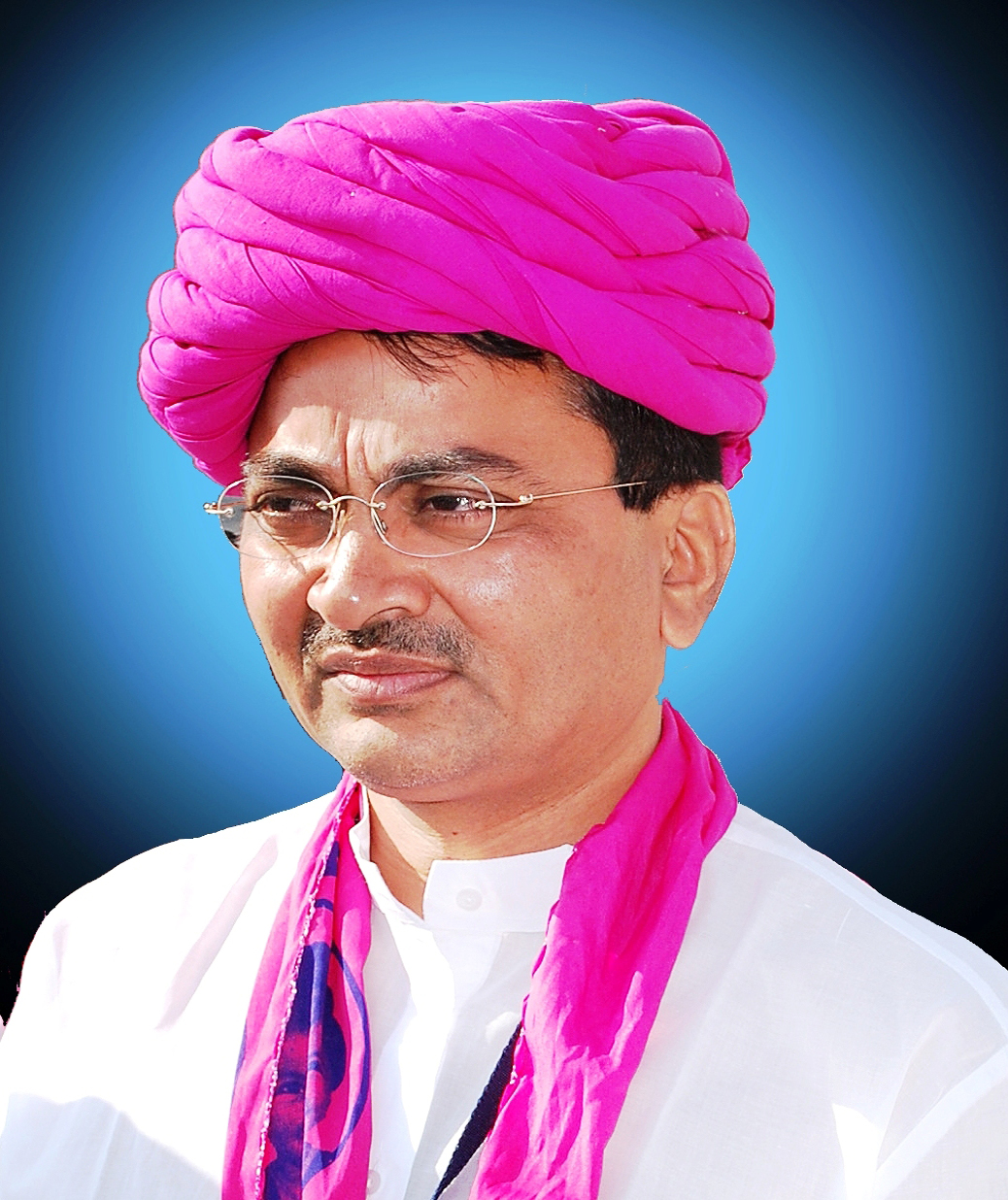 Mathur Savani in 2015